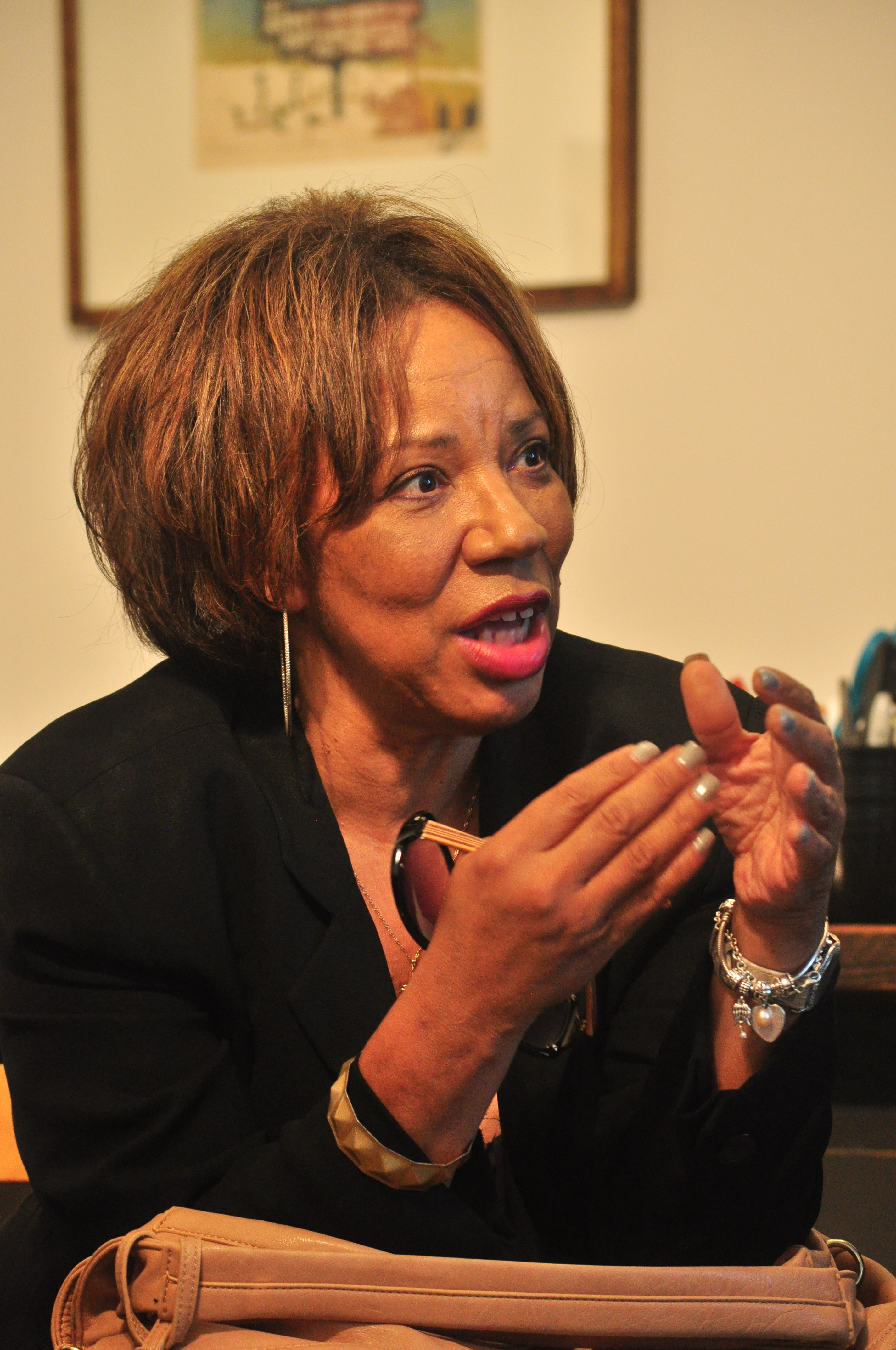 Singer Bernadette Bascom, photographed at "Living Liner Notes" panel discussion for Wheedle's Groove, at The Project Room, 1315 E Pine St, Seattle, Washington.